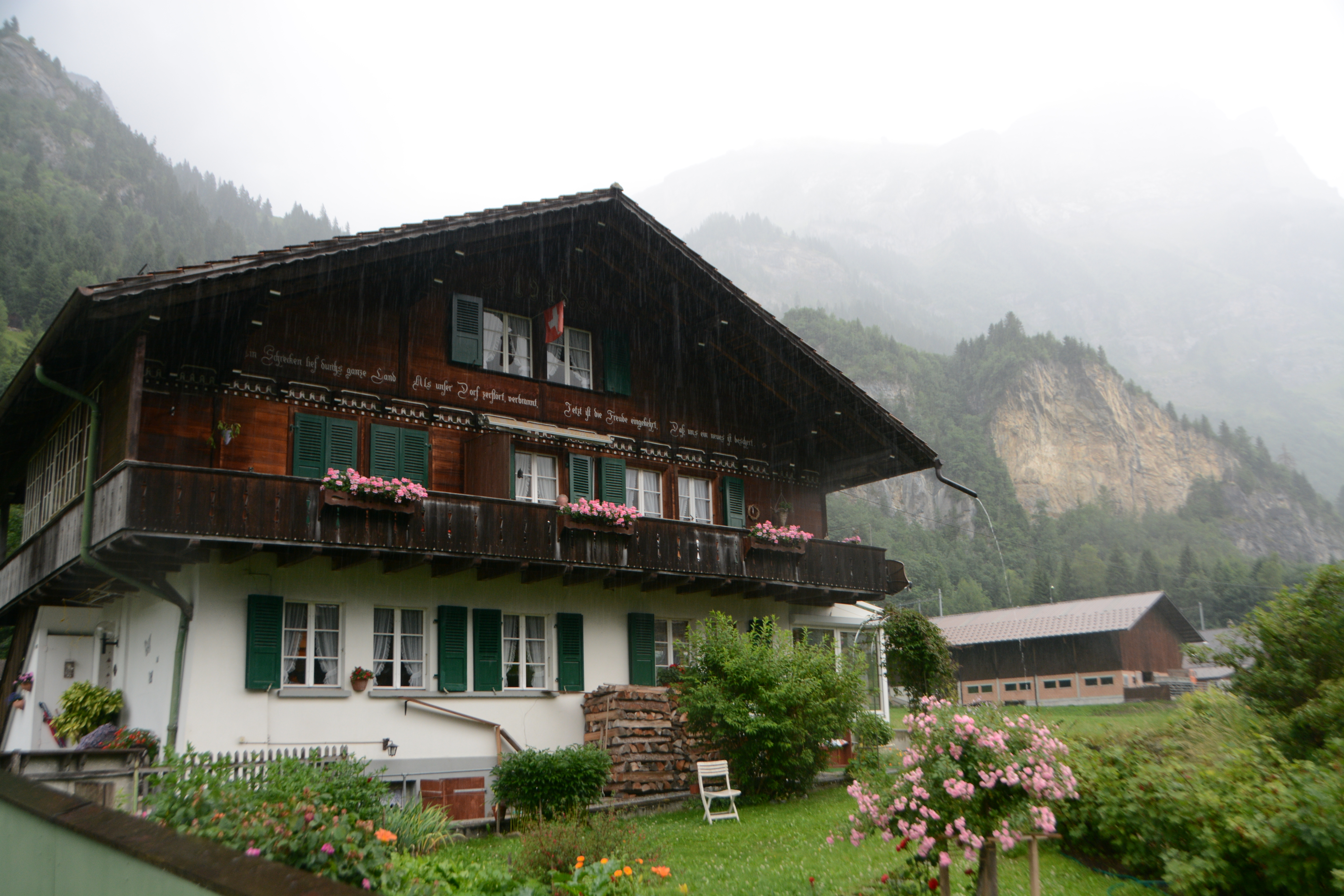 One of the many buildings of Mitholz which were rebuilt after the 1947 explosion. This one was completed 1948 and bears an inscription commemorating the event.